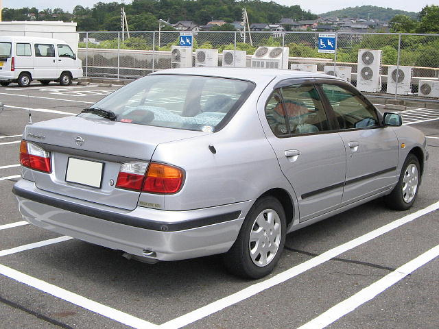 Nissan "Primera" (P11 / 2nd generation) 1997/9-2001/1